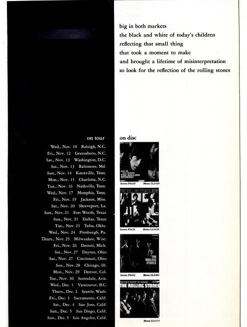 Trade ad for The Rolling Stones' fall 1965 North American tour. Copyright details There are no copyright markings as can be seen at the full view link. The ad is not covered by any copyrights for Billboard. US Copyright Office page 3-magazines are collective works (PDF) "A notice for the collective work will not serve as the notice for advertisements inserted on behalf of persons other than the copyright owner of the collective work. These advertisements should each bear a separate notice in the name of the copyright owner of the advertisement."